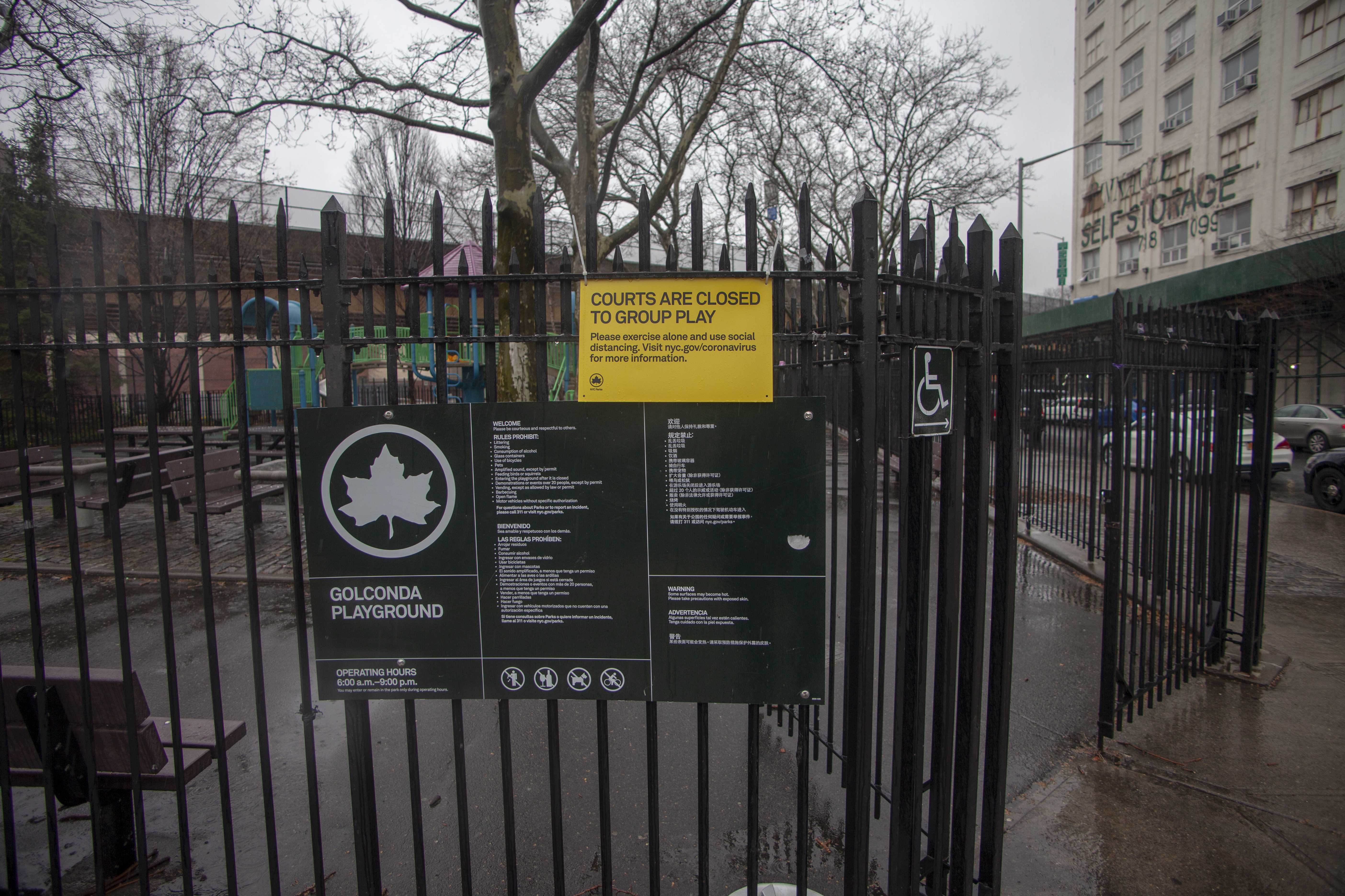 Closed playing courts at Golconda Playground at NYC parks due to CoronaVirus